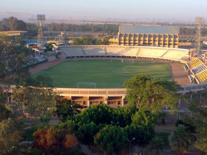 Nag Hammadi